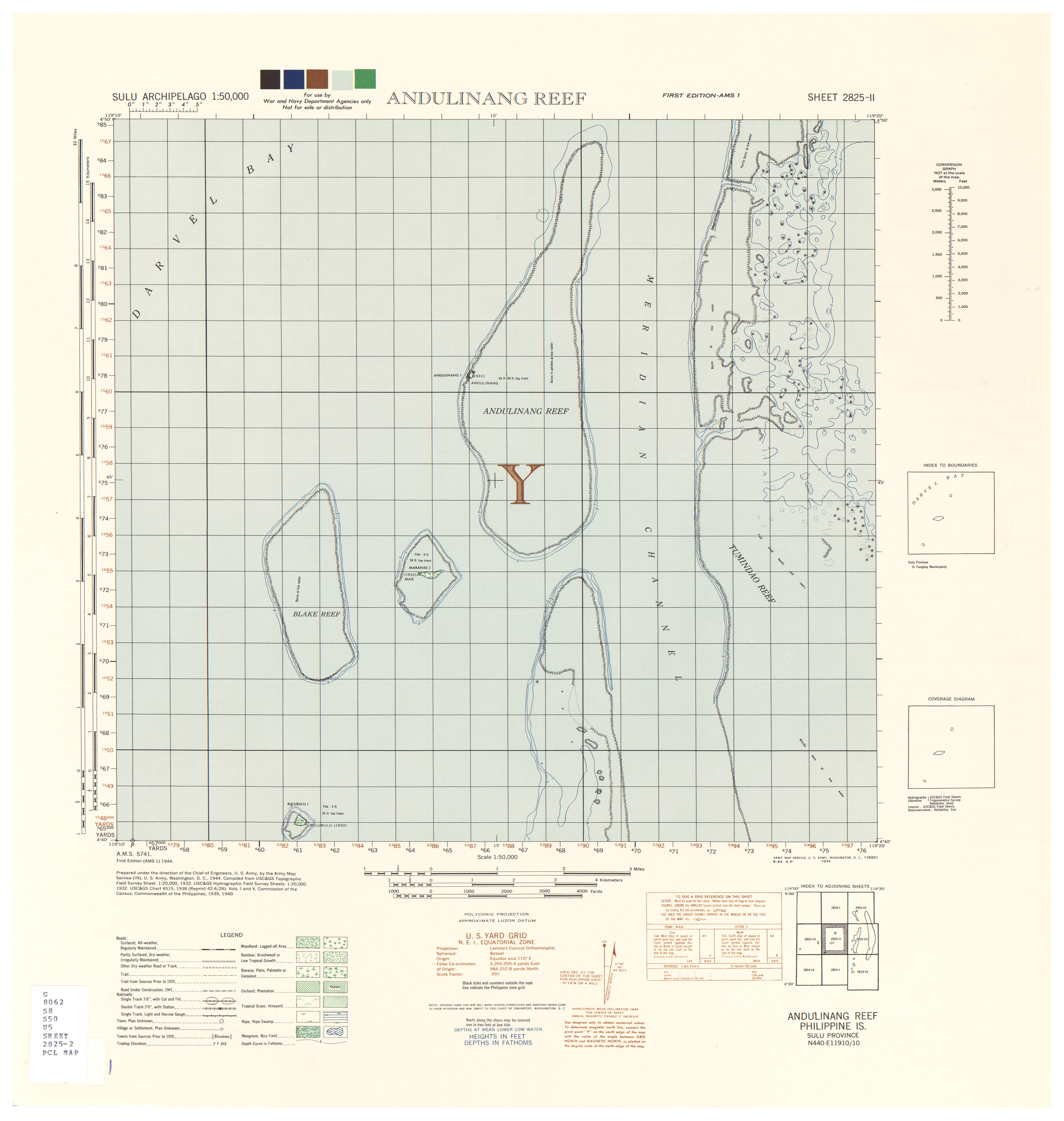 Map of Andulinang Reef from the United States Army, 1944